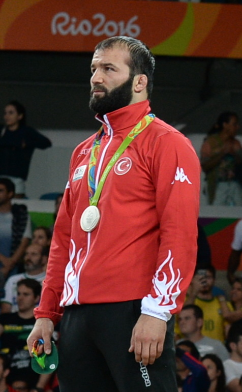 2016 Summer Olympics, Men's Freestyle Wrestling 86 kg awarding ceremony